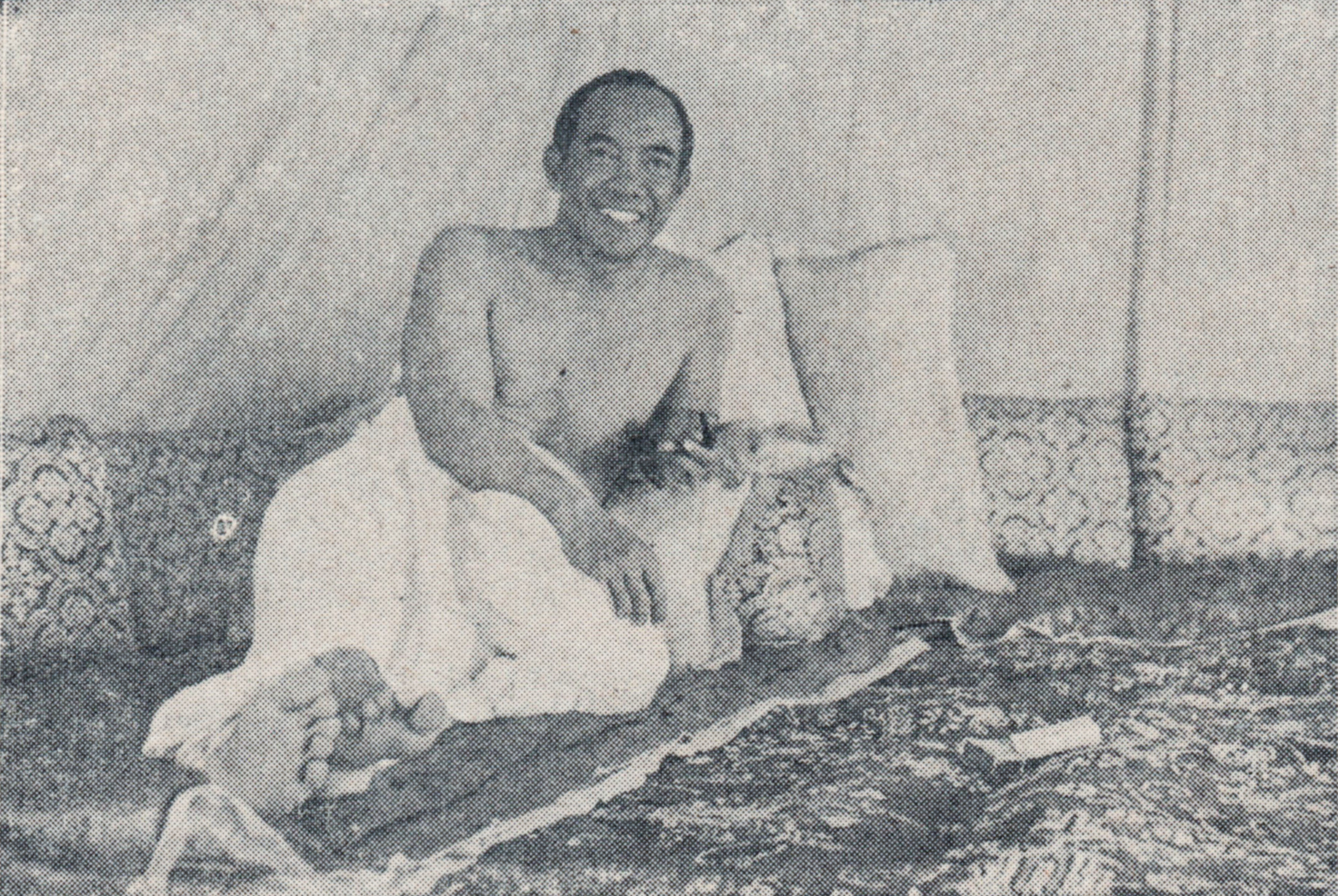 Sukarno resting while on the hajj, 1955